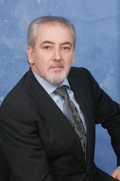 Lutfi Mestan Chairman of DPS